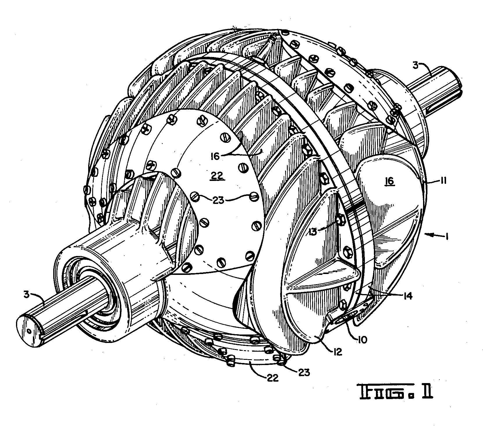 Spherical trajectory rotary power device